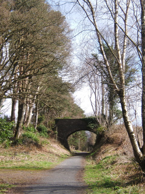 Looking towards the bridge on the dismantled railway The line travelled a scenic route up to Coniston.